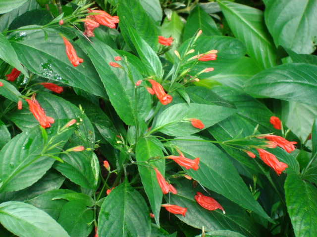 Flowers and leaves of Ruellia brevifolia (synonym R. graecizans